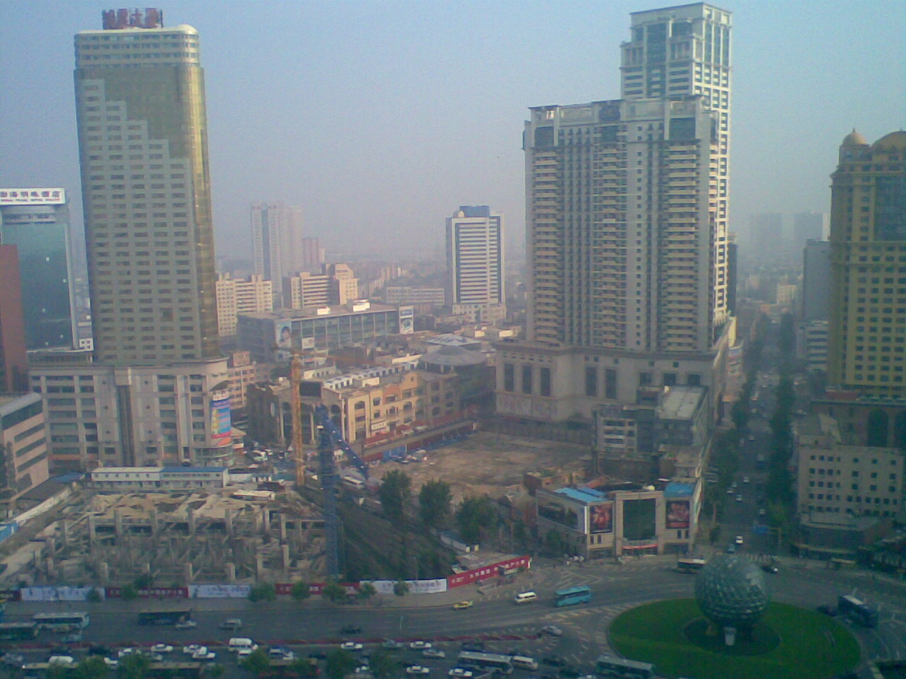 Friendship Square in Dalian (view from 25 th floor)